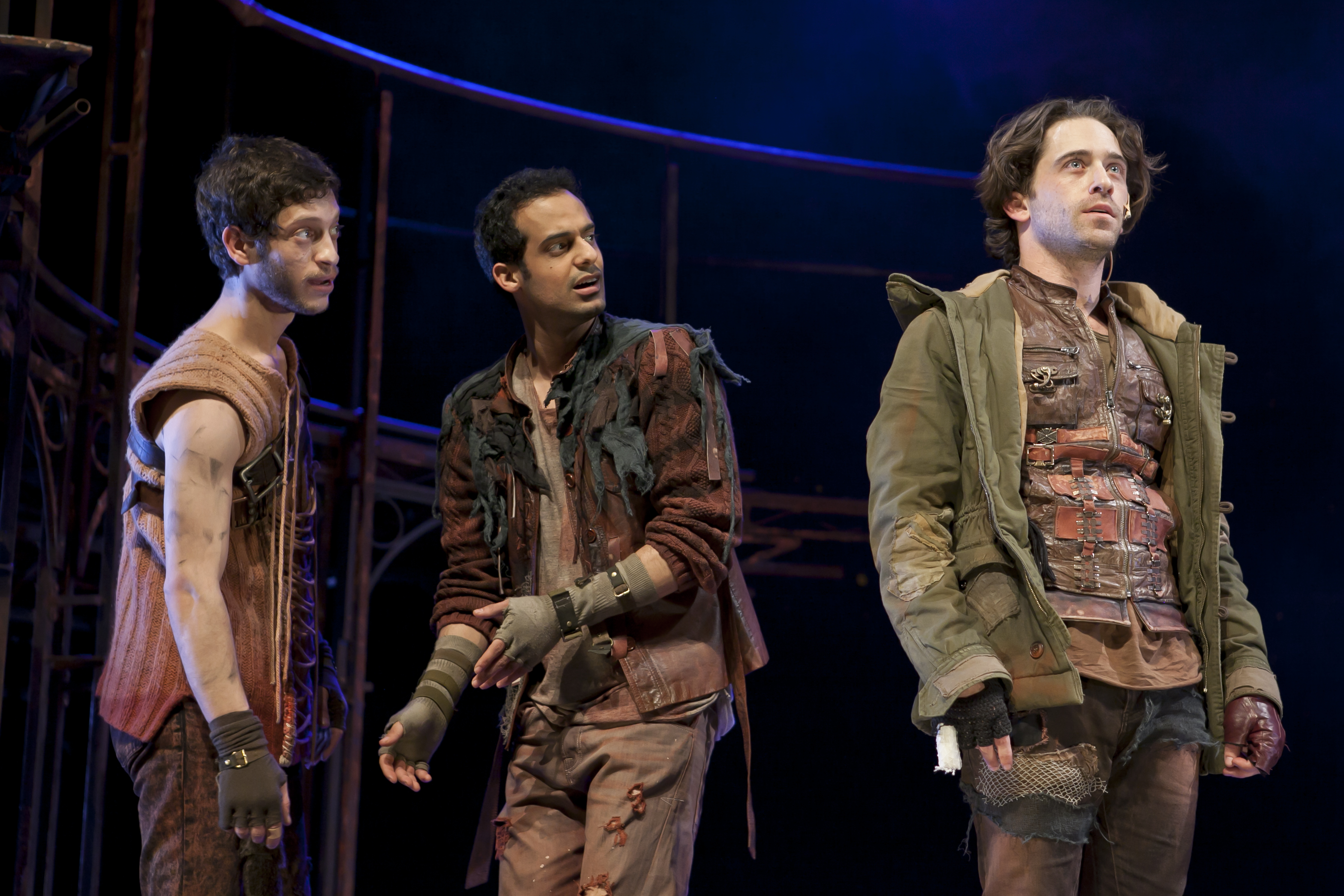 (Right to Left): Tom Avni ("Romeo"), Yogev Yefet ("Benvulio") and Tom Hagi ("Marcuzio") in Beersheba Theatre's "Romeo and Juliet"; Director: Irad Rubinstein; Lighting designer: Ziv Voloshin